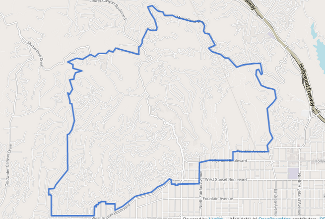 Map of Hollywood Hills West, as drawn by the Los Angeles Times. Other information Boundary map as drawn by the Los Angeles Times on a CC-by-SA background. Note at bottom right of map on the L.A. Times website noted above says "CC-by-SA" (which gives permission to use the map). There is a link there to which explains the meaning thereof. The base map is credited to The Times spells all this out at